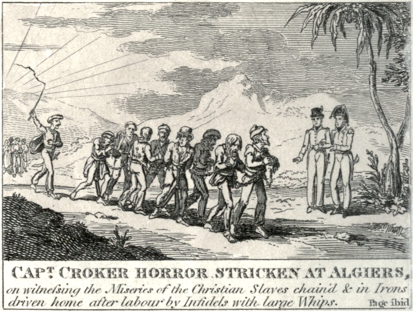 Original caption: "Captain Croker horror stricken at Algiers, on witnessing the Miseries of the Christian Slaves chaind & in Irons driven home after labour by Infidels with large Whips." Additional information about the source: "The cruelties of the Algerine pirates, shewing the present dreadful state of the English slaves, and other Europeans, at Algiers and Tunis; with the horrid barbarities inflicted on christian mariners shipwrecked on the north western coast of africa and carried into perpetual slavery. authenticated by Mr. Jackson, of Morocco; Mr. MacGill, merchant and by Capt. Walter Croker, of His Majesty's Sloop Wizard. Who in last July (1815) saw some of the frightful horrors of Algerine Slavery; to rouse general attention to which, this Economical Publication is issued. With an engraving. London: printed for W. Hone, 55 Fleet-Street. 1816"